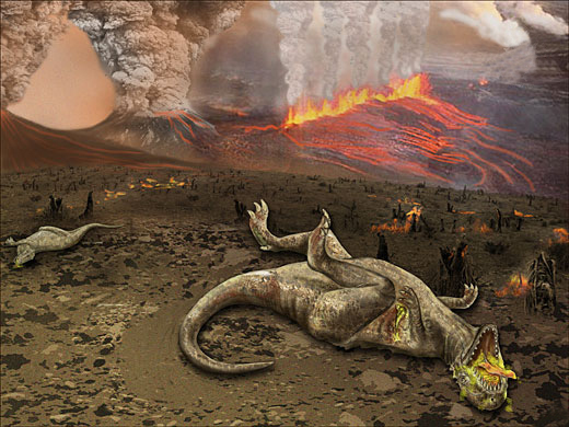 extinction of dinosaurs in Deccan Traps in Western Ghats, India. See also Talk:Deccan Traps#Image: artist's rendition of dinosaur extinction.